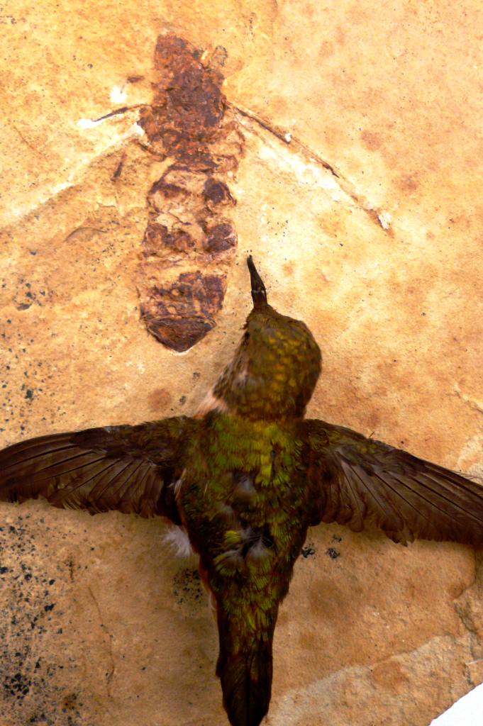 Two SFU biologists are among four scientists a fossilized giant ant that is comparable in size to a humming bird. See the story here.